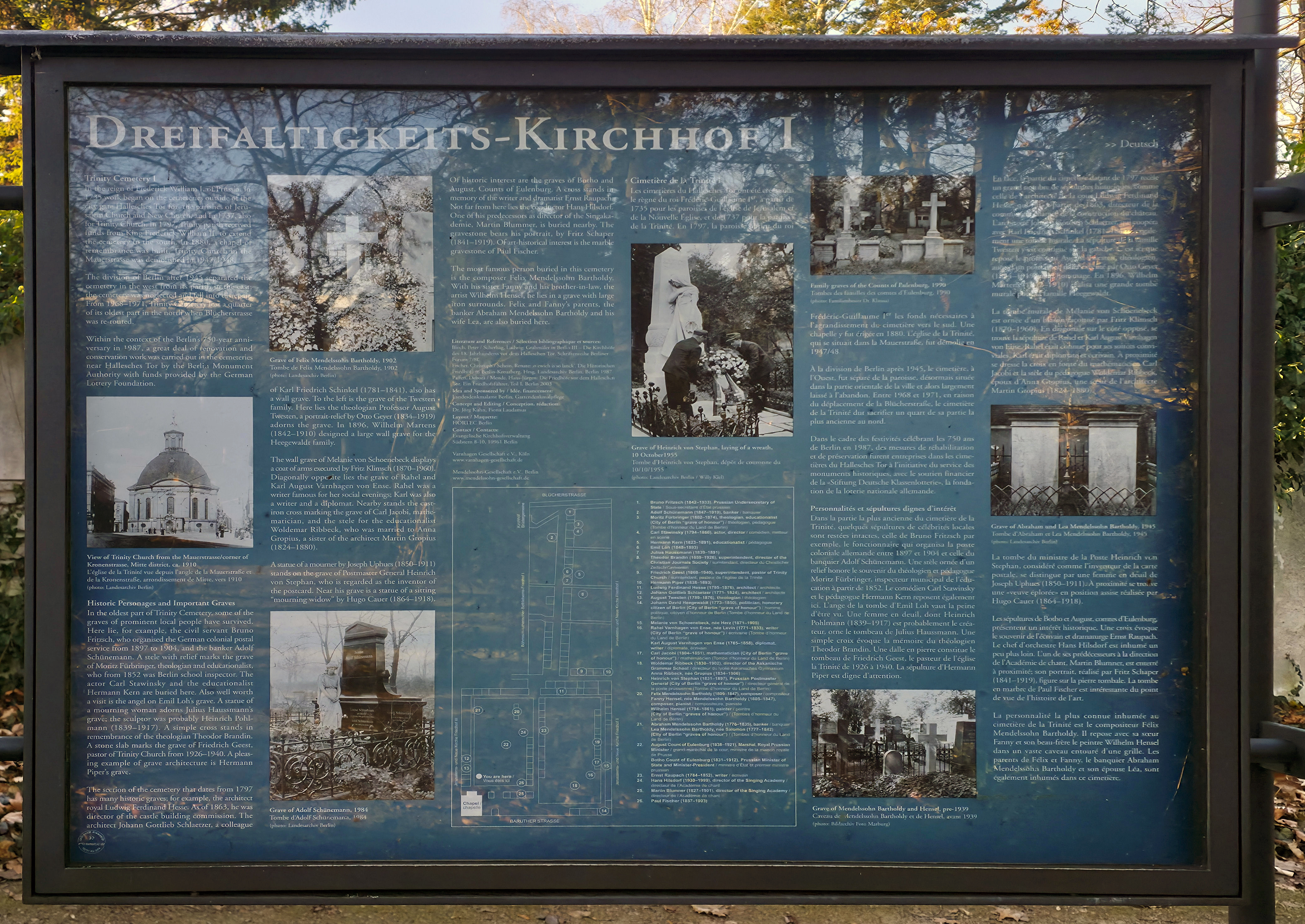 Memorial plaque, Dreifaltigkeits-Kirchhof I, Mehringdamm 21, Berlin-Kreuzberg, Deutschland